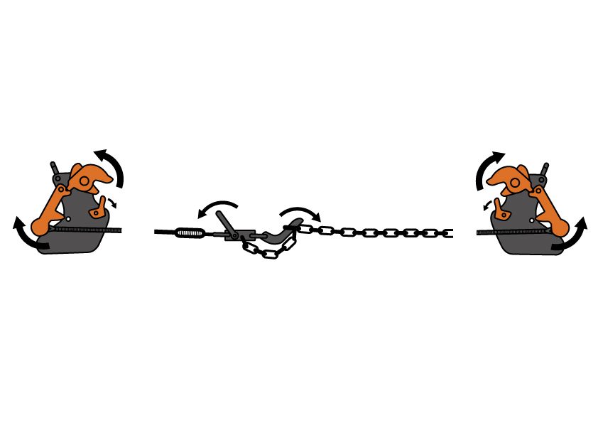 The skipper gives the order "Slip". The crew releases the Slip Lever, giving slack to the Fore and After, and the Disengaging Gear cams start to move in order to release the Falls.